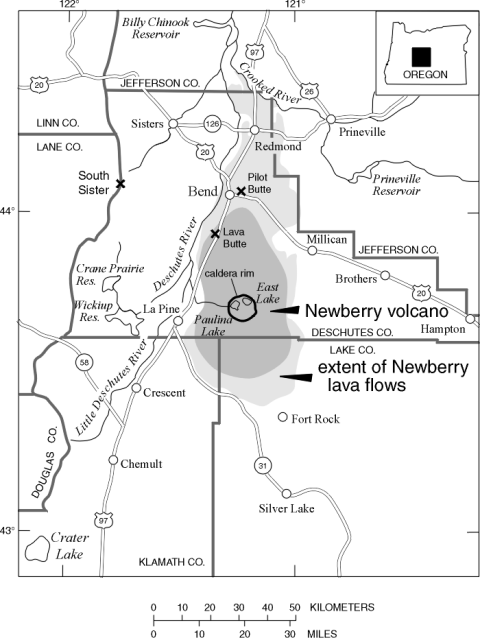 United States Geological Survey map of the Newberry Volcano.